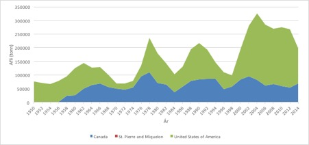 Afli á Amerískri hörpuskel frá 1950-2014